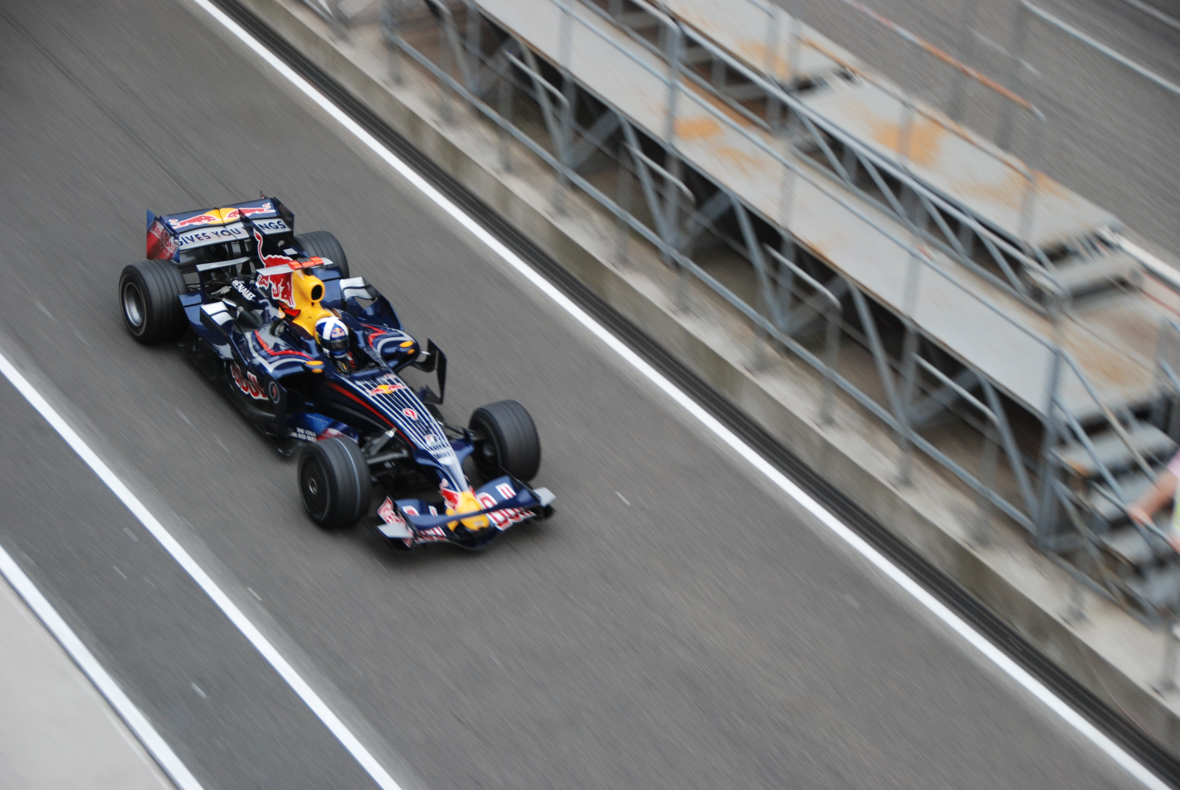 David Coulthard at 2008 Chinese Grand Prix